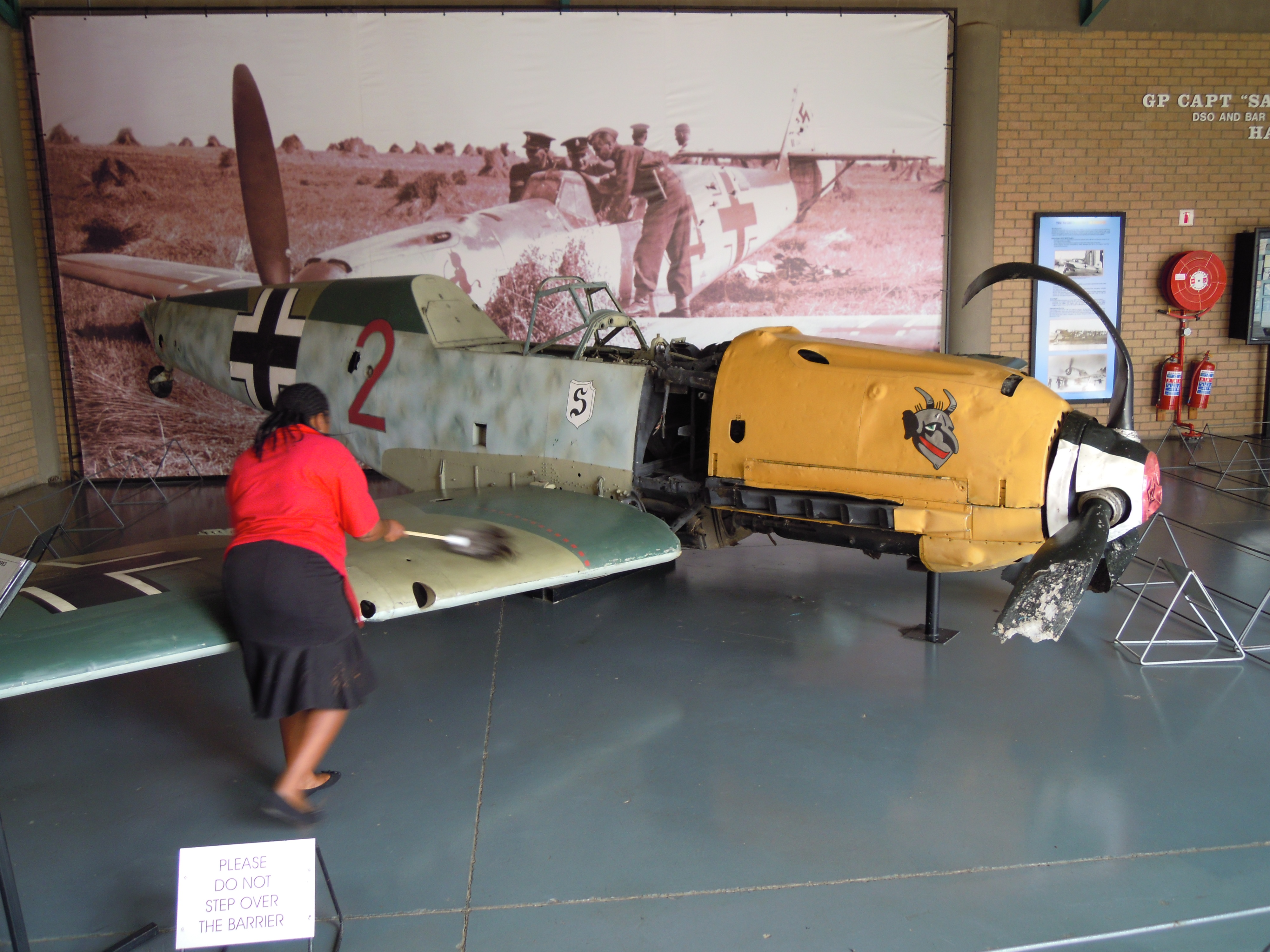 Johannesburg war museum world war II German aeroplane